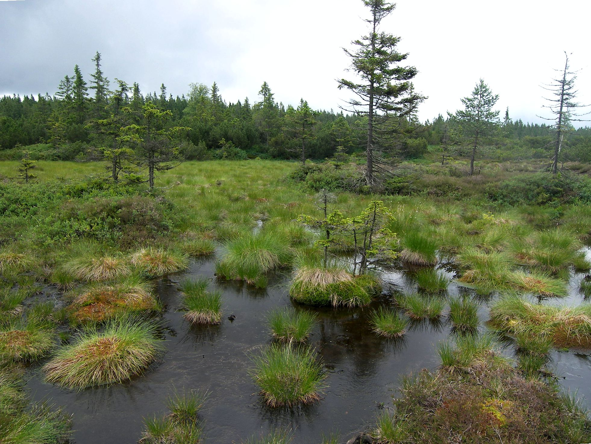 bog Maly Polec, Šumava, Stachy, Churáňov, 49°3'48.013"N, 13°36'55.405"E